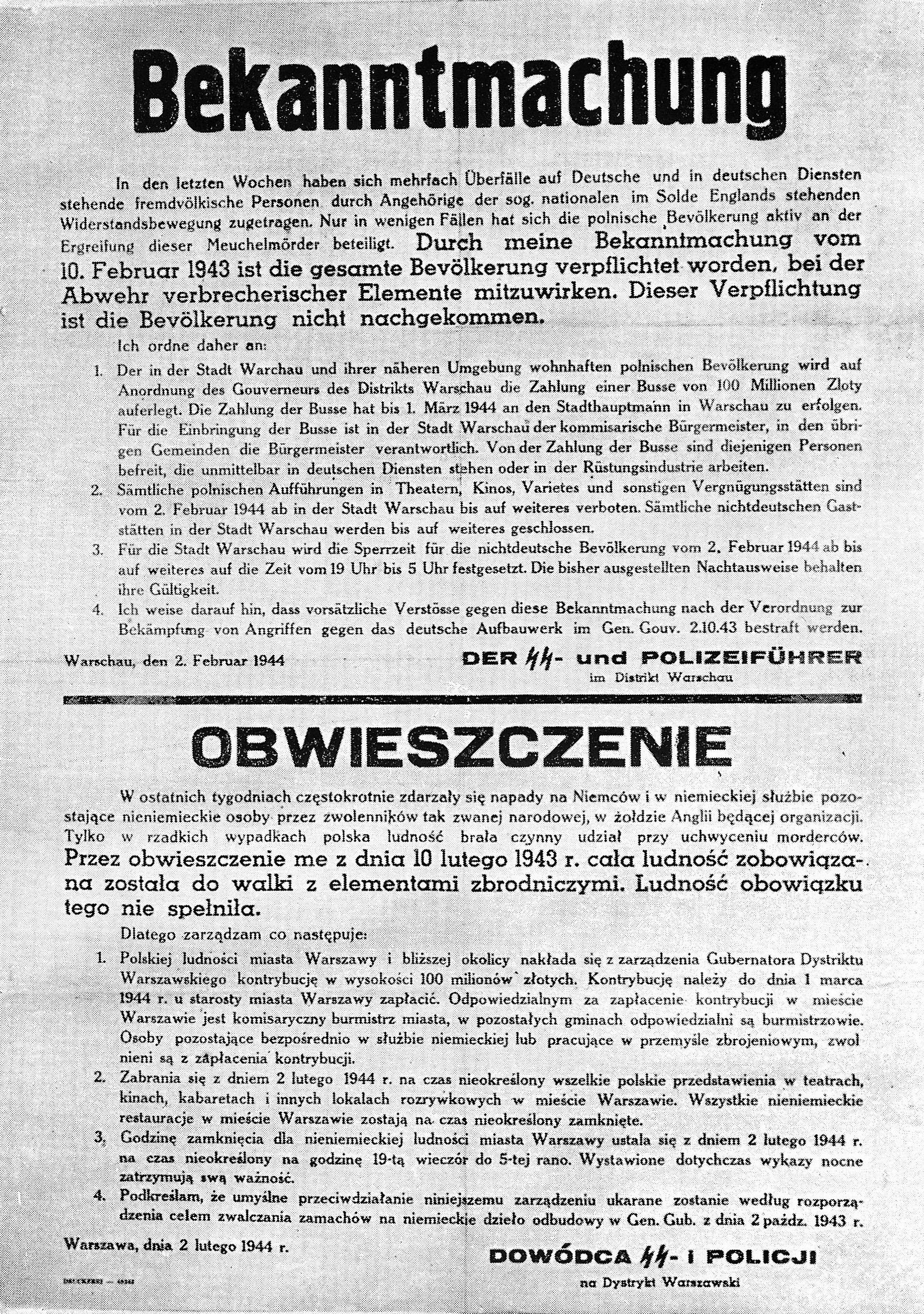 Announcent of 2 February 1944 imposing, inter alia, PLN 100 million contribution upon Warsaw after the assasination of Franz Kutschera